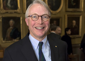 The Swedish ecologist Carl Folke